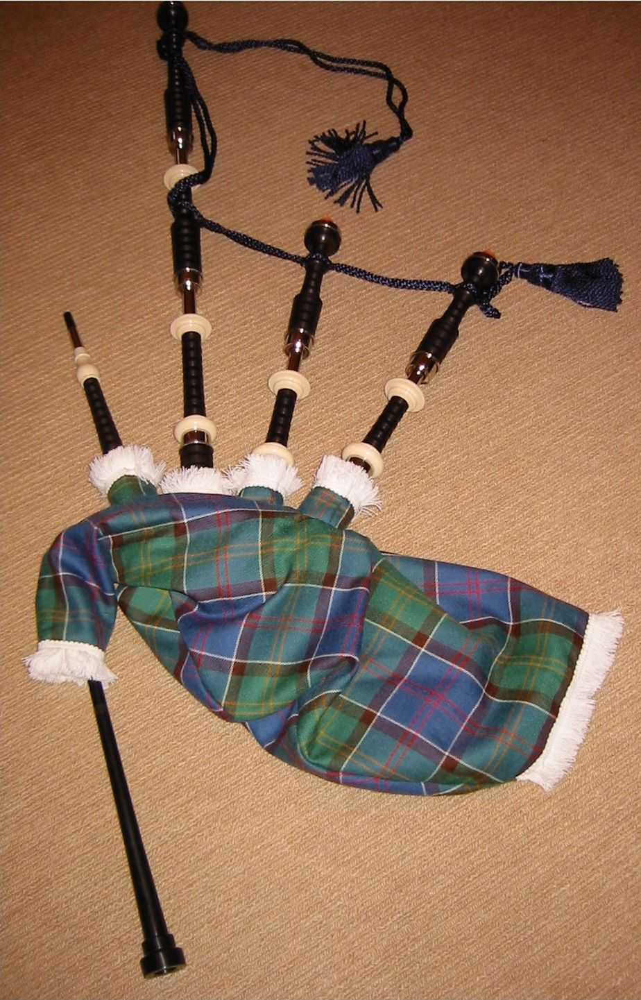 Great Highlands Bagpipe